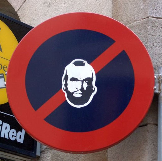 Mr. T on a road sign